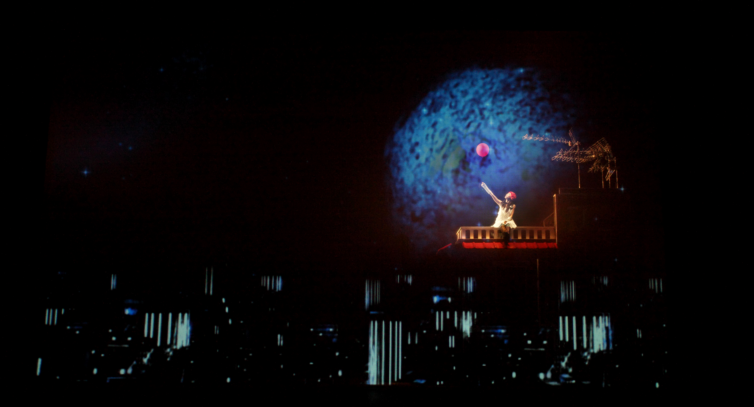 opening scene